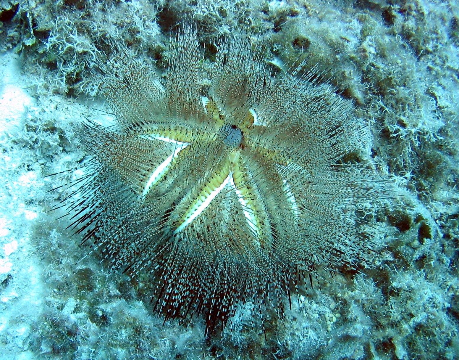 A blue-spotted urchin (Astropyga radiata) Image ID: reef0713, NOAA's Coral Kingdom Collection Location: Northwest Hawaiian Islands